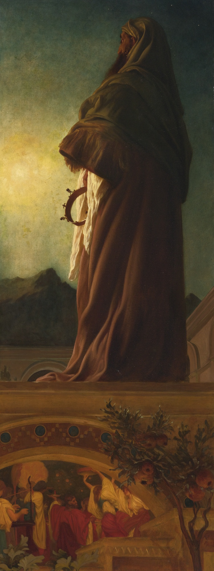 One of the Magi, from the terrace of his house, stands looking at the star in the East. The lower part of the picture indicates a revel, which he may be supposed to have just left."The Star of Bethlehem" or "Eastern King" (see Google Books).